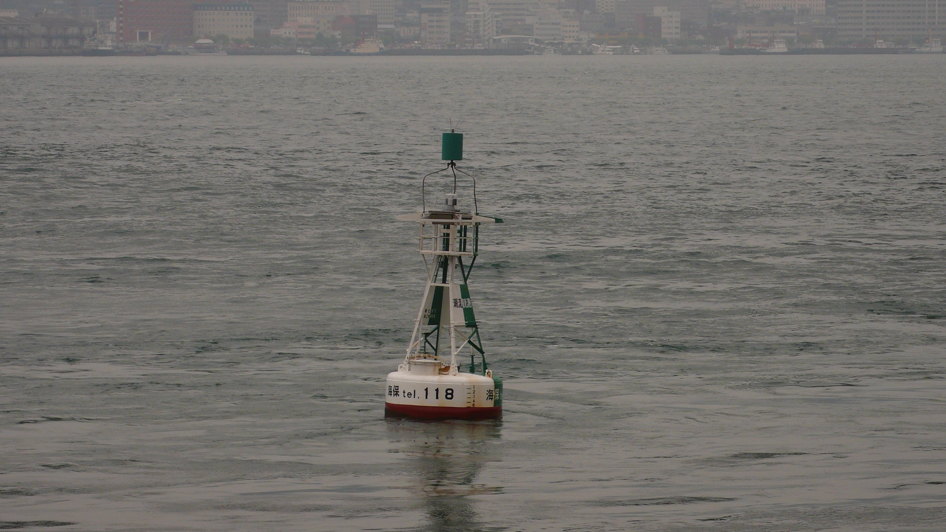 A light buoy indicating the flow direction in Hayatomo-no-seto waterway of Kanmon straits. (2008)